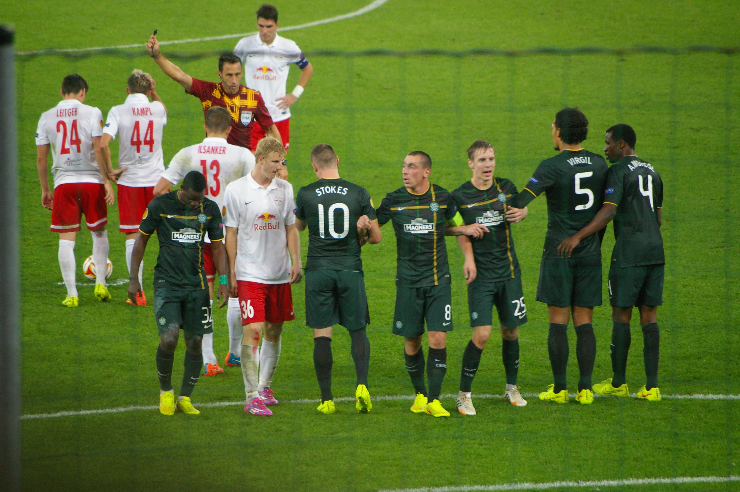 FC Salzburg gegen Celtic Glasgow Europa League Group D